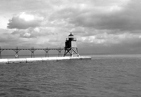 undated photograph of the Two Rivers Light in service